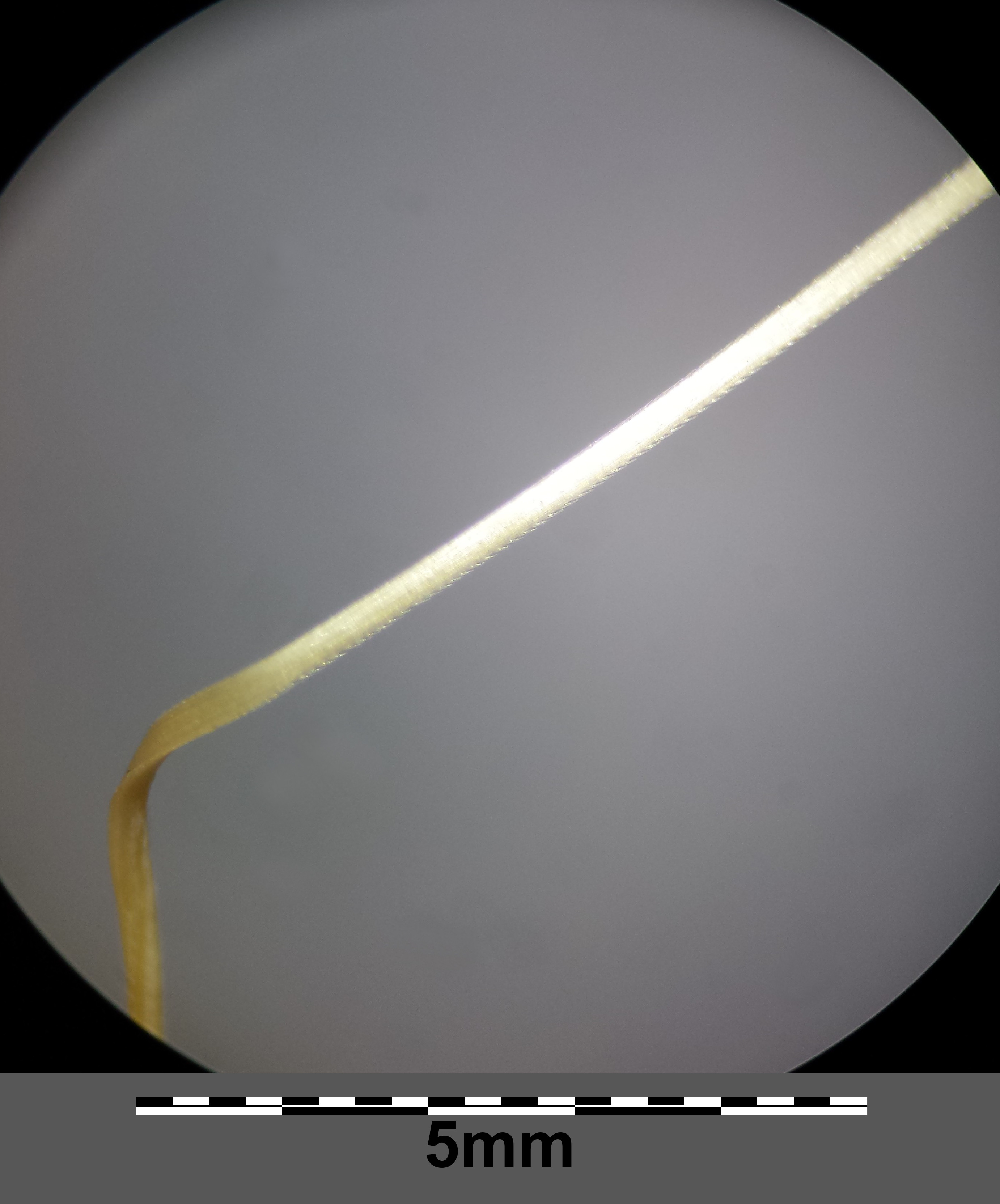 Awn with small hooklets Taxonym: Stipa capillata ss Fischer et al. EfÖLS 2008 ISBN 978-3-85474-187-9 Location: Loess hill to the west of Großebersdorf, district Mistelbach, Lower Austria - ca. 200 m a.s.l. Habitat: semi-dry grassland